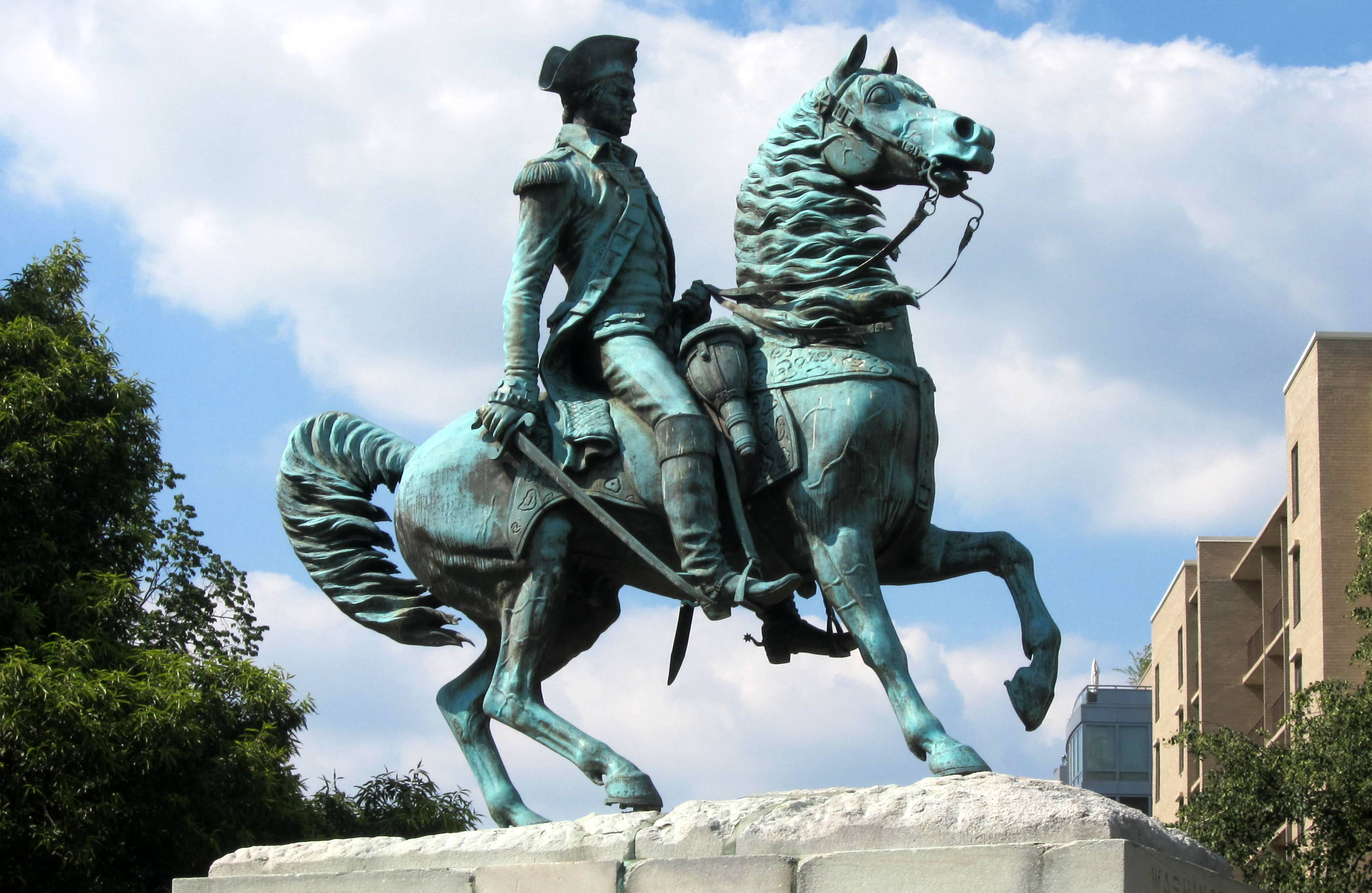 The equestrian sculpture of George Washington at the center of Washington Circle, a traffic circle and public park, located on the boundary of the Foggy Bottom and West End neighborhoods in Washington, D.C.